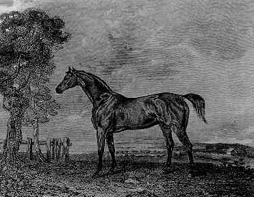 Phantom, winner of 1811 Epsom Derby. Contemporary engraving published in Sporting Magazine. Artist dead for over 100 years.